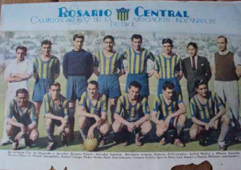 Rosario Central team, champion of Rosario Football Association in 1937. Up: Oscar Ábalos (massage therapist), Rafael Luongo, Pedro Aráiz, Justo Lescano, Germán Gaitán, Ignacio Díaz, Luis Amaya (suit), Natalio Molinari (coach); down: Rosario Gómez, Salvador Laporta, Benjamín Laterza, Roberto D'Alessandro, Aníbal Maffei, Alberto Espeche.